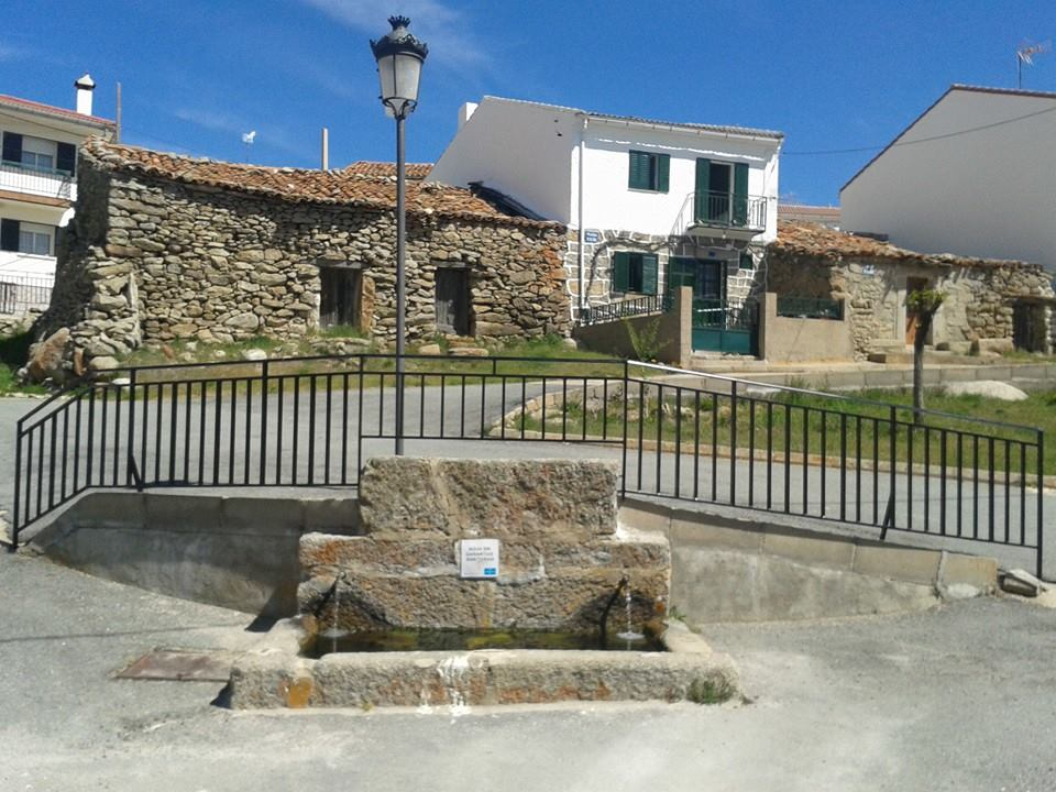 Plaza de los Caños